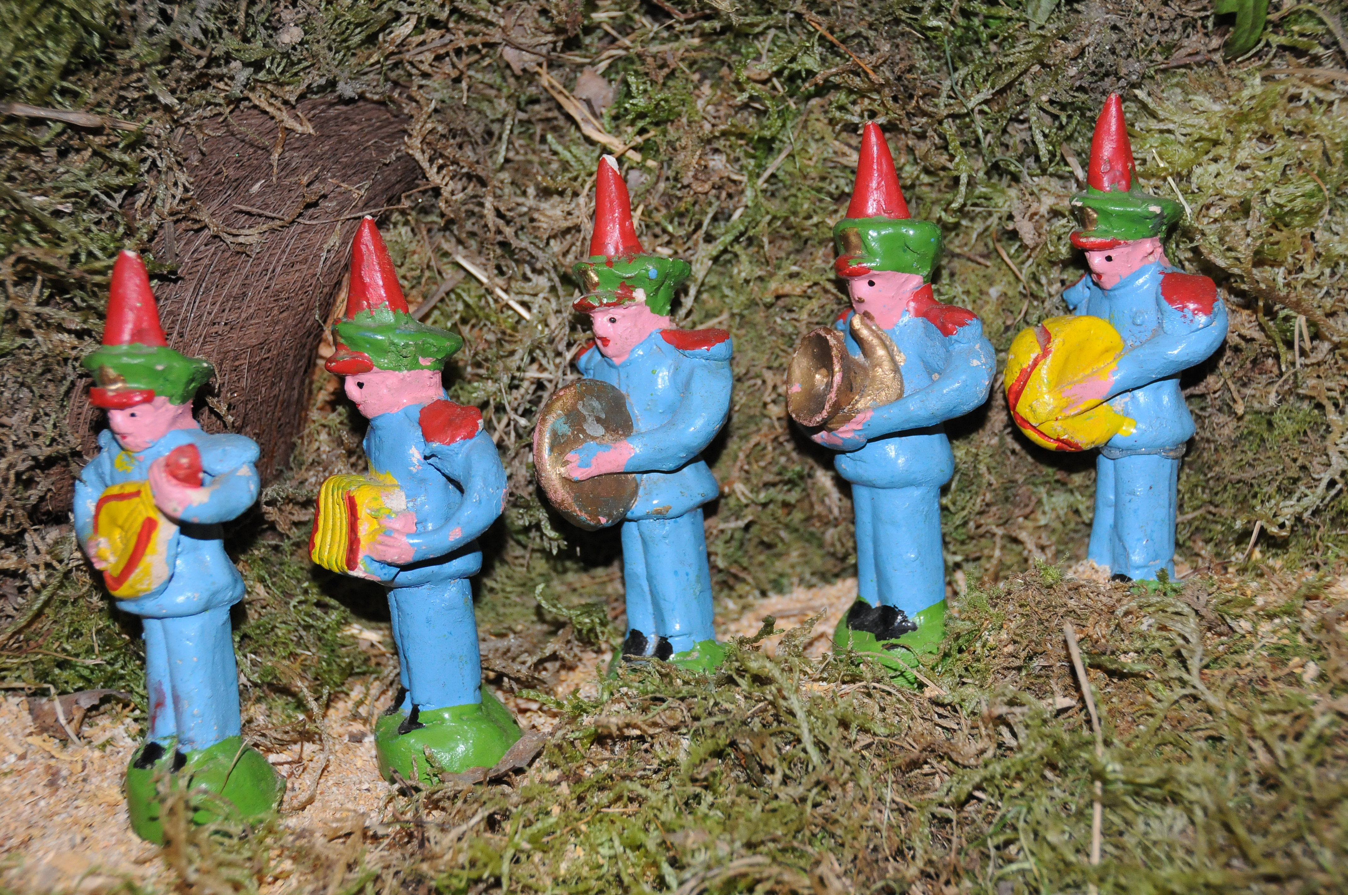 Nativity scenes of Portugal